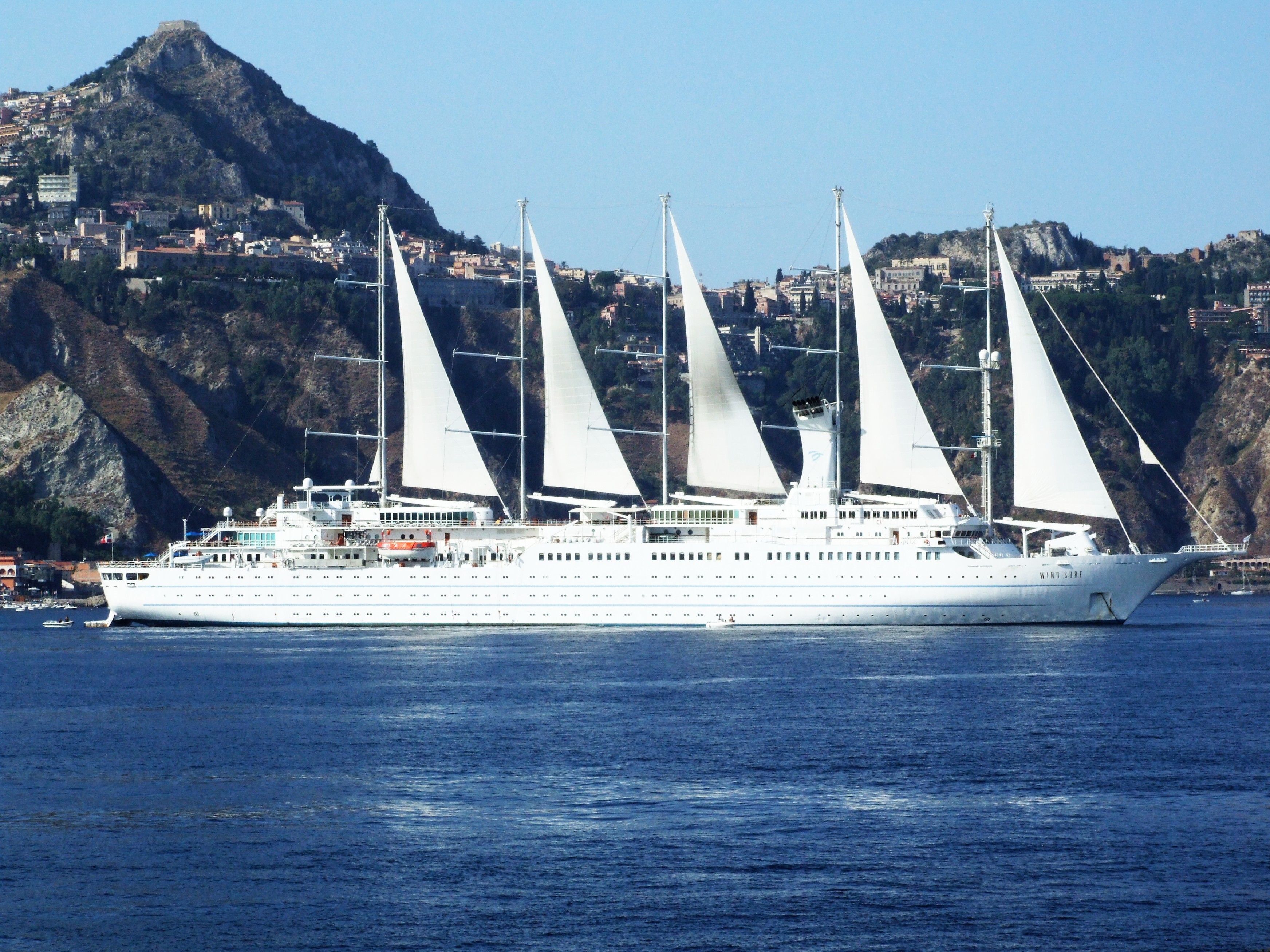 Cruise ship Wind Surf - Giardini-Naxos - Sicily, Italy